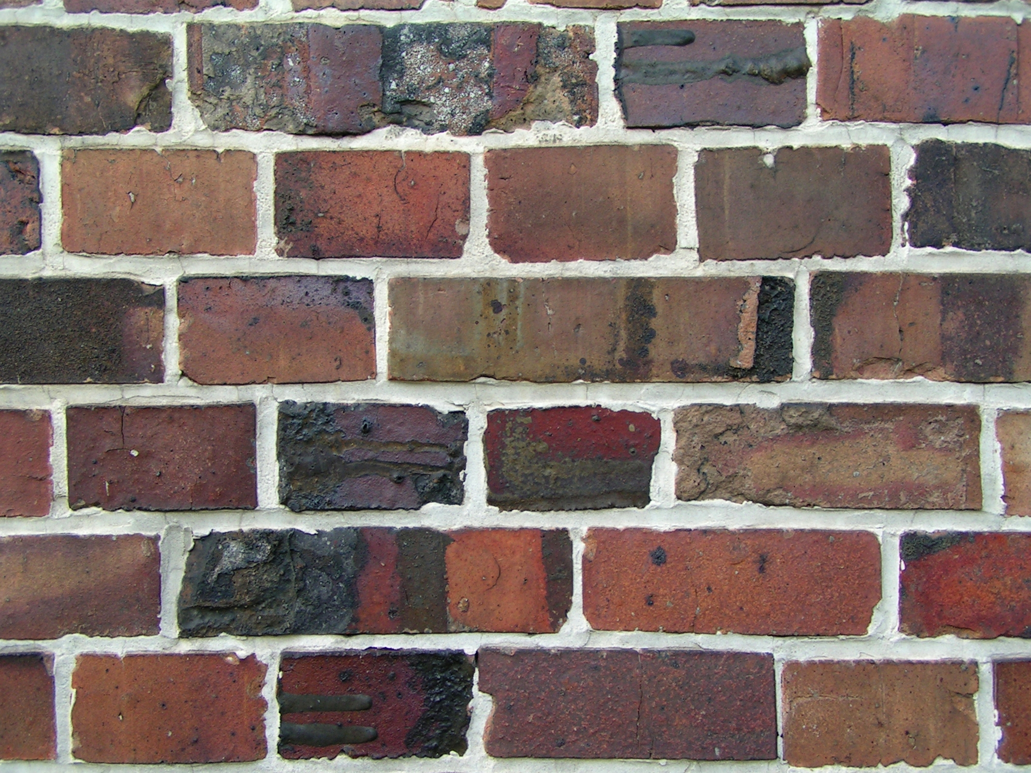 Photo of clinkers